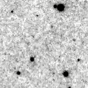 The image is an optical negative centered on the SIMBAD coordinates J2000.0 for Van Maanen's star. Image is from the Palomar 48-inch Schmidt reflecting telescope. Van Maanen's star is the largest black dot center top right.